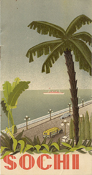 Travel brochure "Sochi ". 1937. Published by State Tourist Company of USSR "INTOURIST".